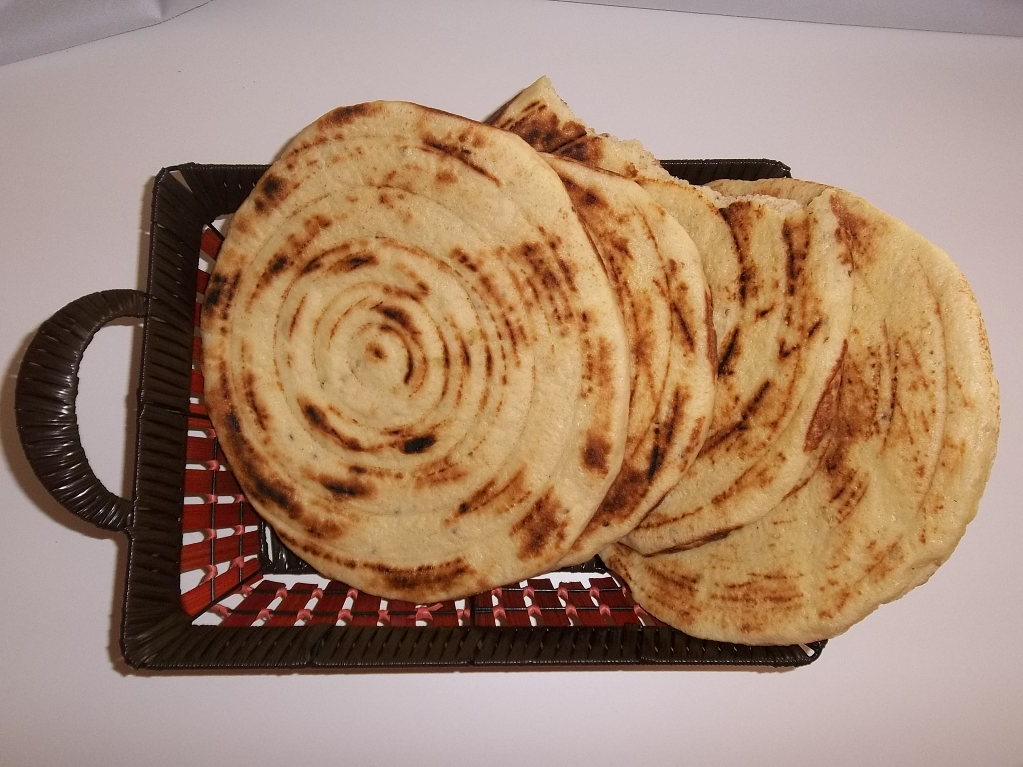 Traditional Tunisian bread, slightly rough, leavened and formed of semolina, baked in a tajine or a heavy ribbed skillet. Black cumin and fennel seeds can be added to give a better flavor. This is an image of food from Tunisia